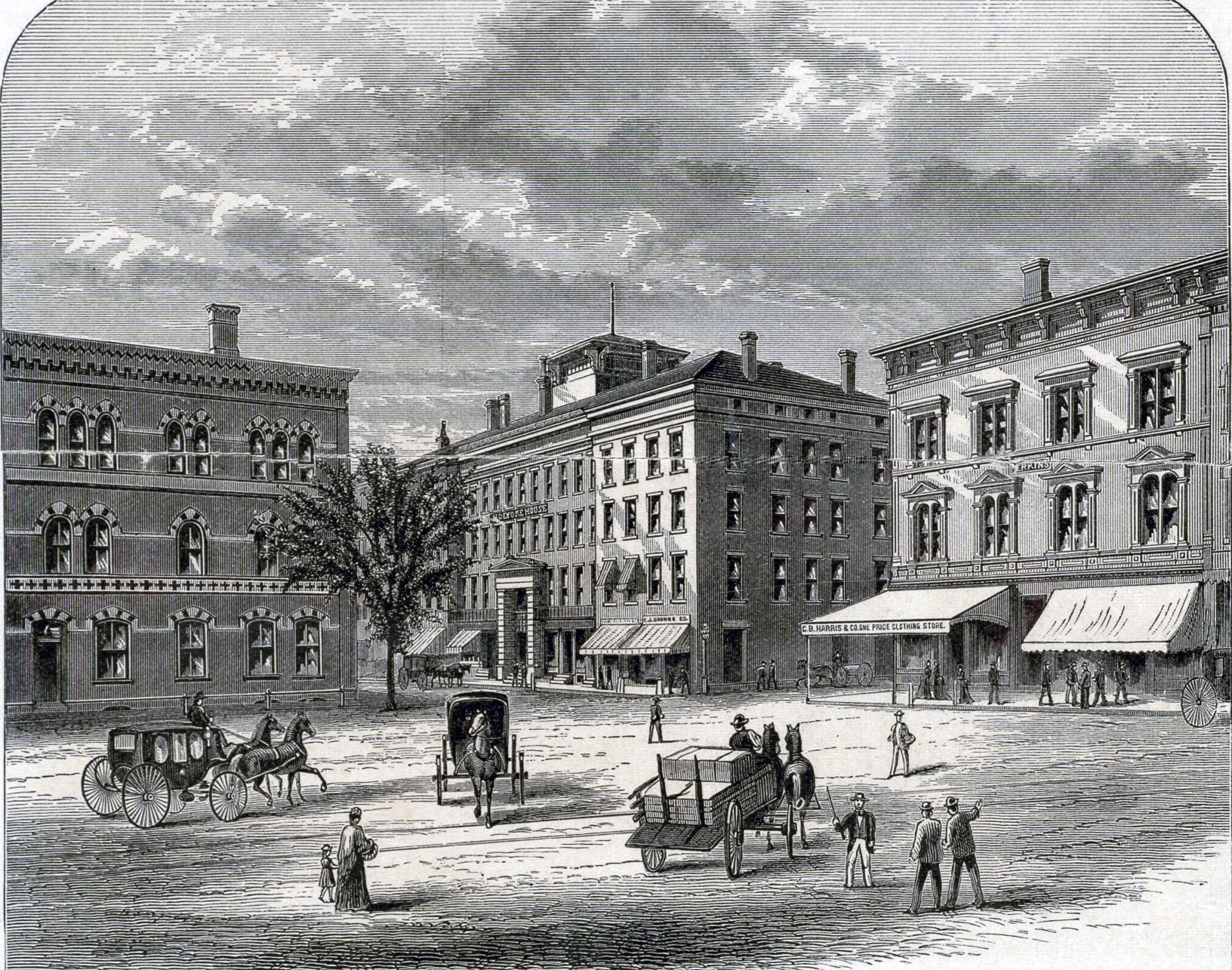 Depot Square section of the The Flats in 1876; visible is the Perkins Block (left; also known as "Hotel Jess"), the Holyoke House (center), and what would be the first headquarters of the D. H. & A. B. Tower architecture firm prior to their relocation to the Flatiron Building.